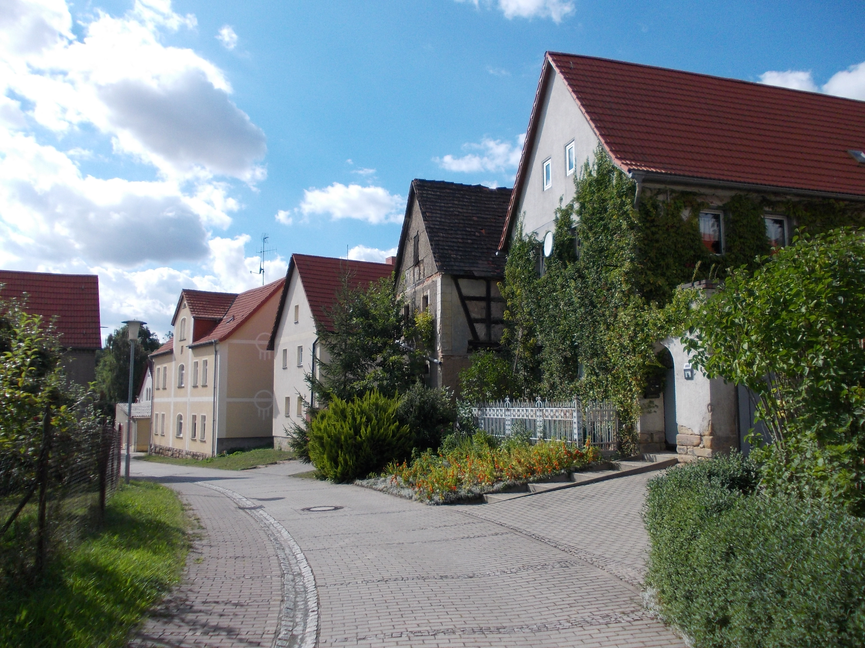 Hufeisen street in Krauschwitz (Teuchern, district of Burgenlandkreis, Saxony-Anhalt)